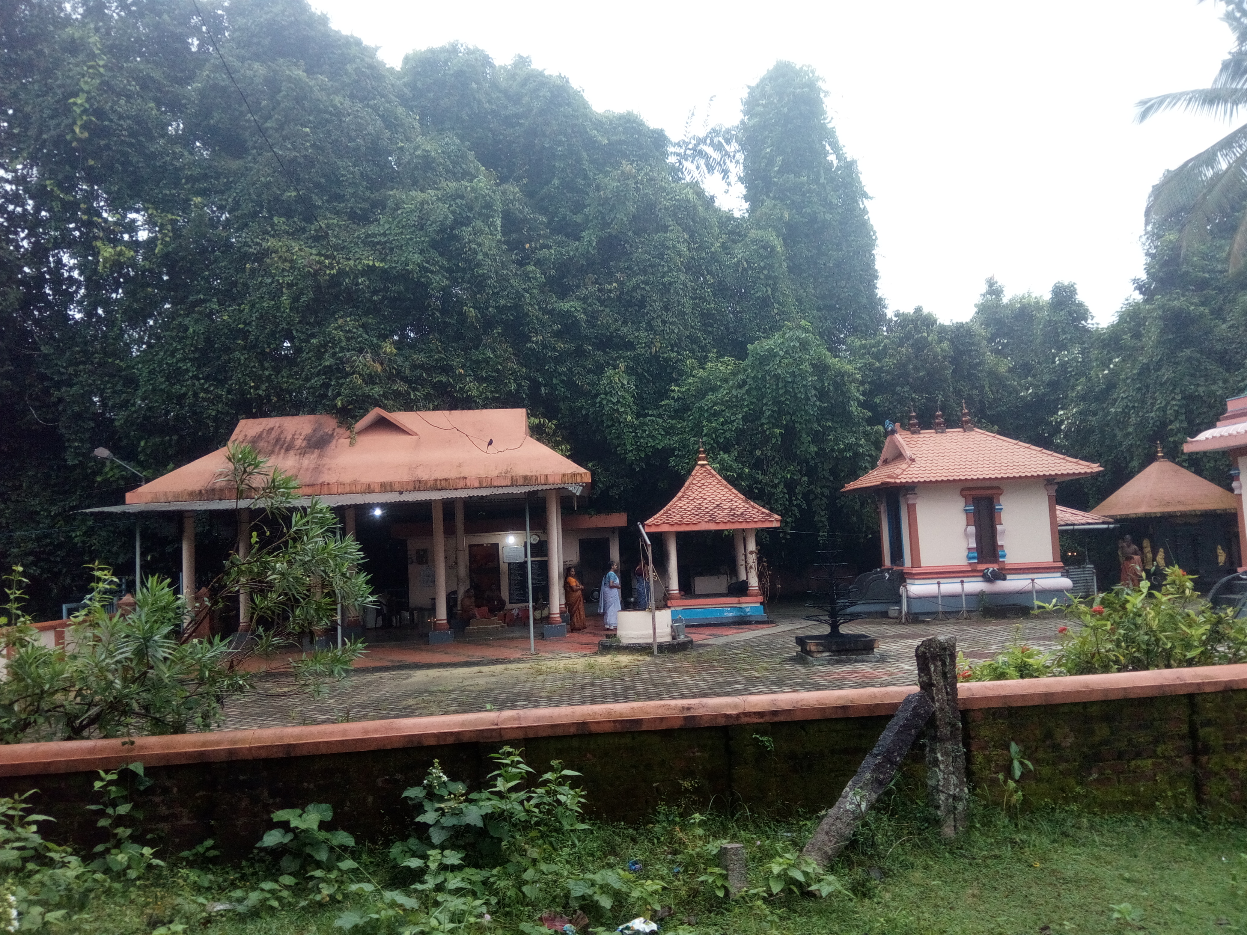 Kirathan kavu is a siva temple in mavelikara, where the idol of kirathan (vettakkoromakan) is worshiped. Temple is situated in the banks of achankovilar